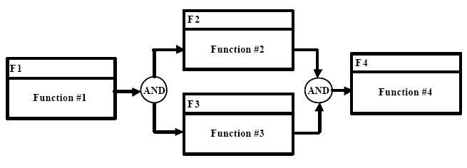 5 AND Symbol